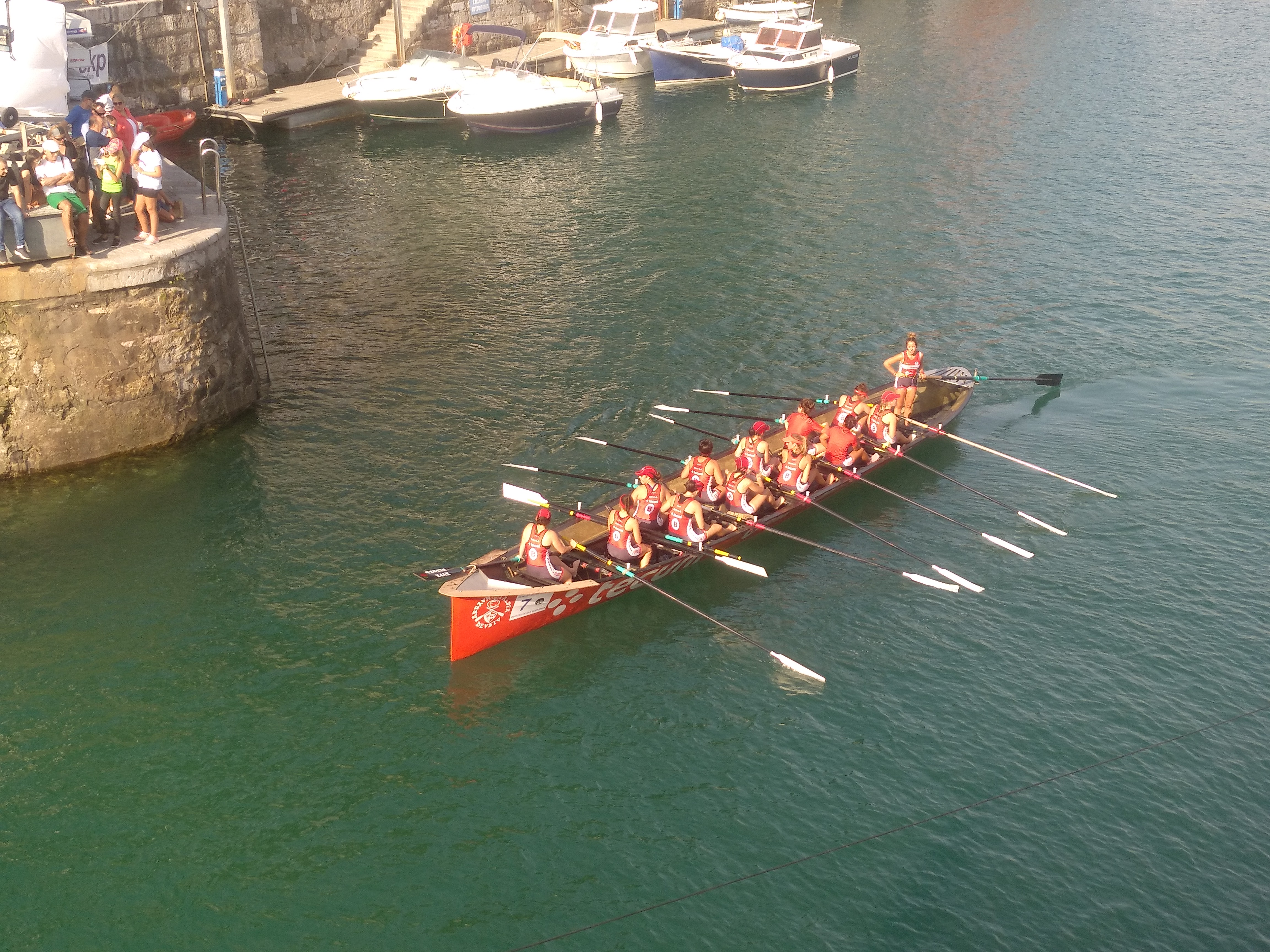 Deustu Arraun Taldea, women, Flag of La Concha, 2018